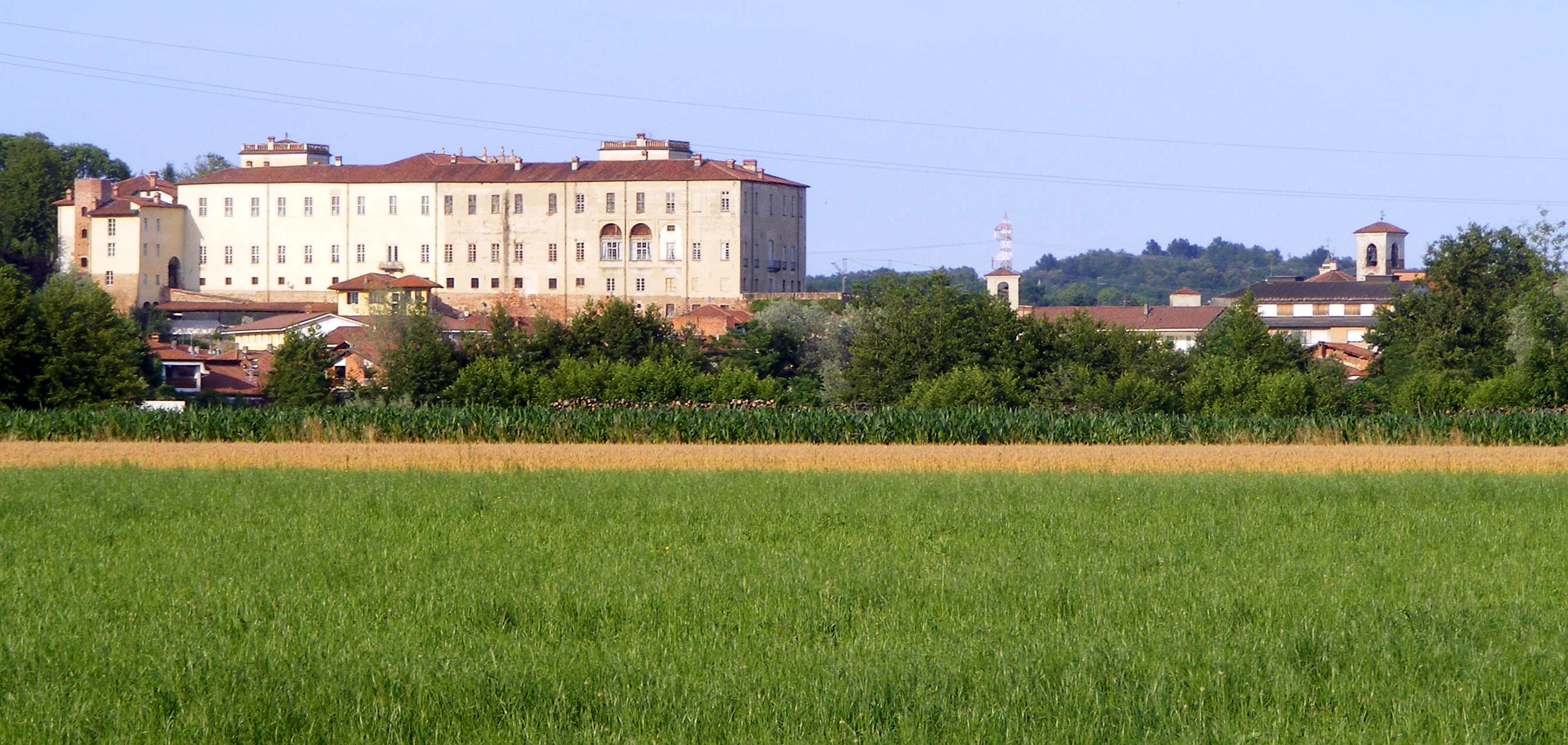 San Giorgio Canavese (TO, Italy): castle and church tower